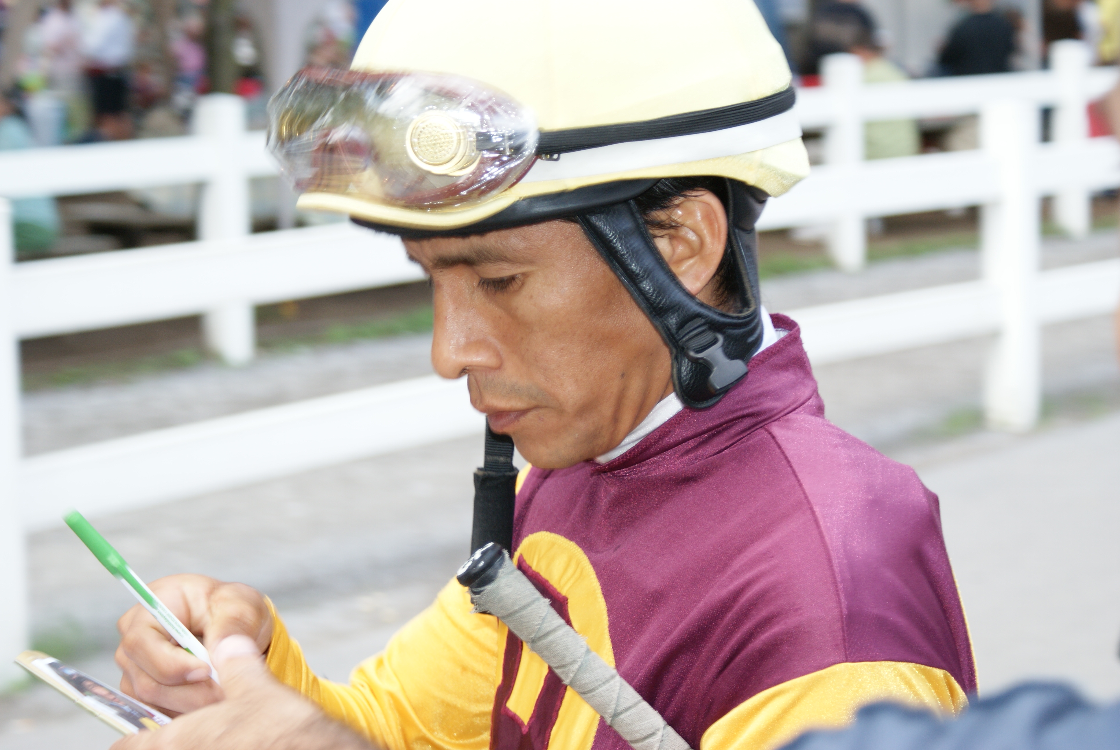 Edgar Prado signs an autograph at the Saratoga Race Course on August 22, 2009.